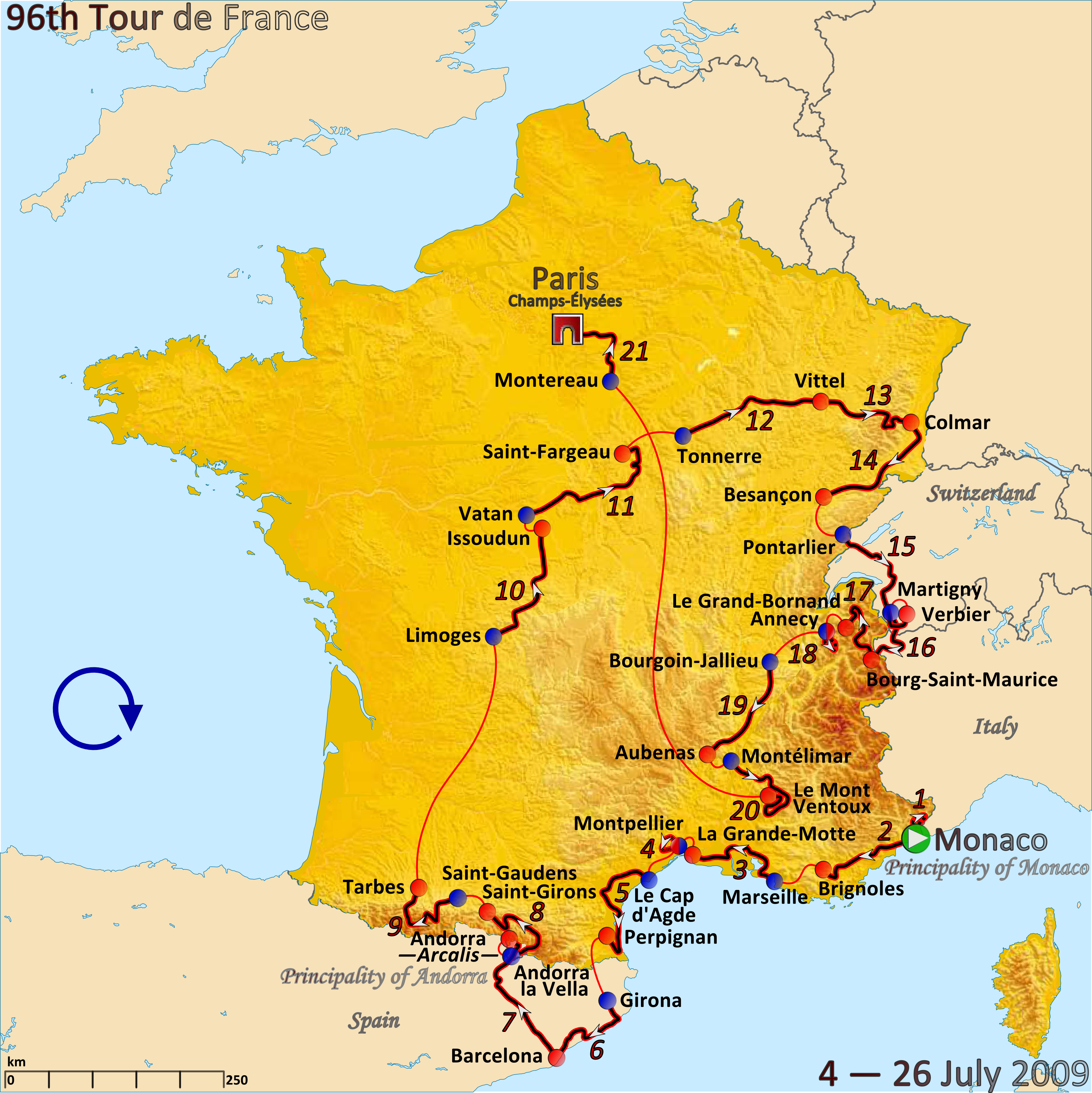 Map of the 2009 Tour de France created in Inkscape